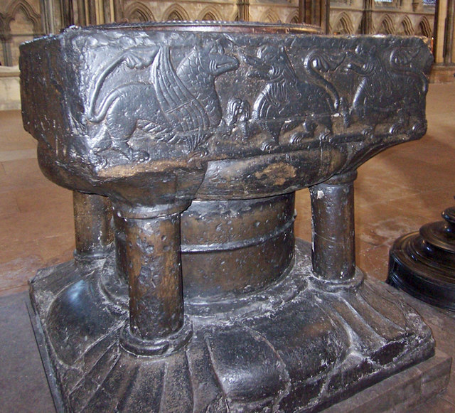 Lincoln Cathedral - the Font. Black Tournai marble with carvings of mythical beasts. For a picture of the similar font at Thornton Curtis, Lincs. see 274575